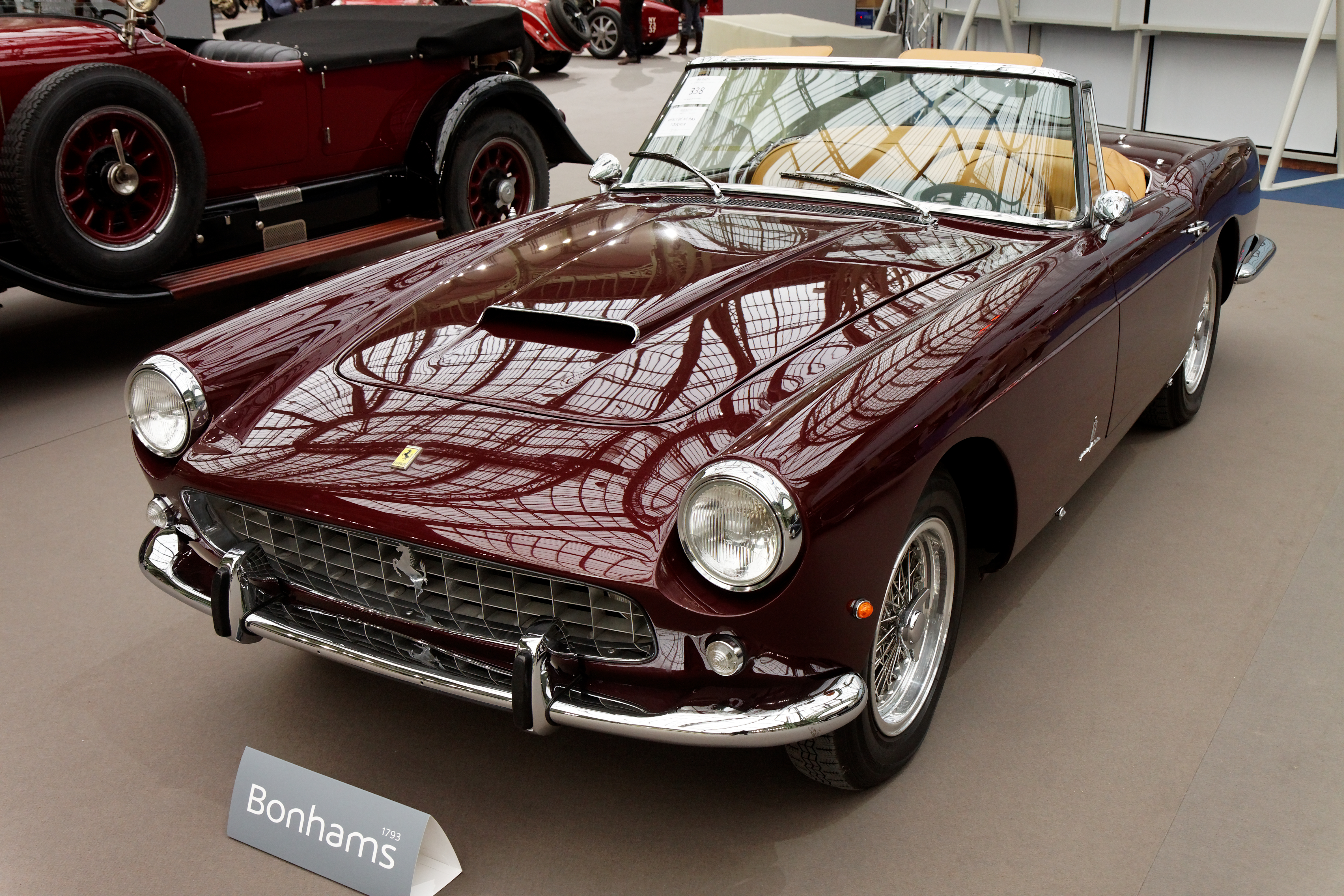 The making of this document was supported by Wikimédia France. (Submit your project!)